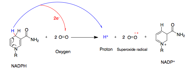 Reaction